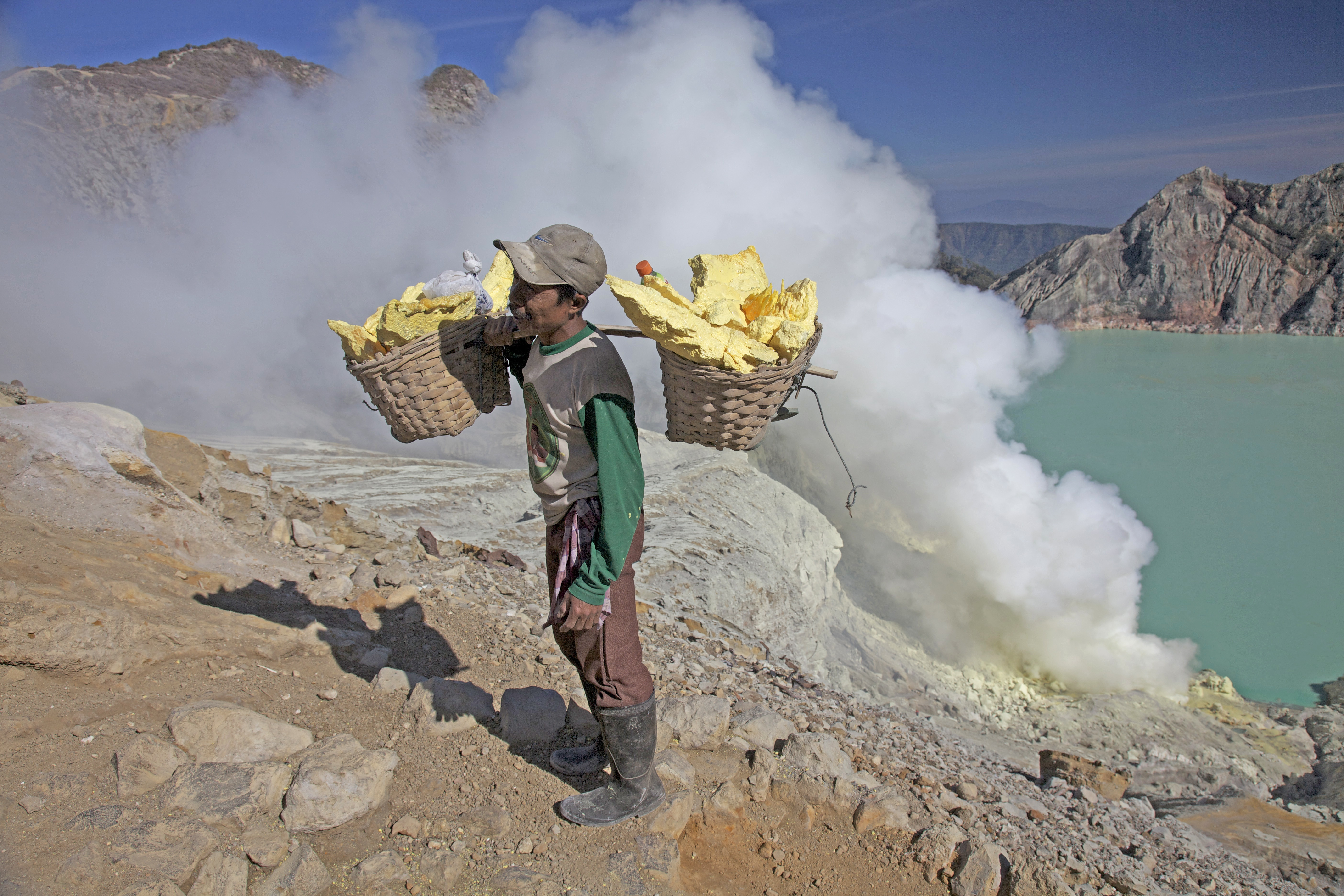 A man carrying sulphur blocks at Gunung Ijen, a volcano in East Java, Indonesia.